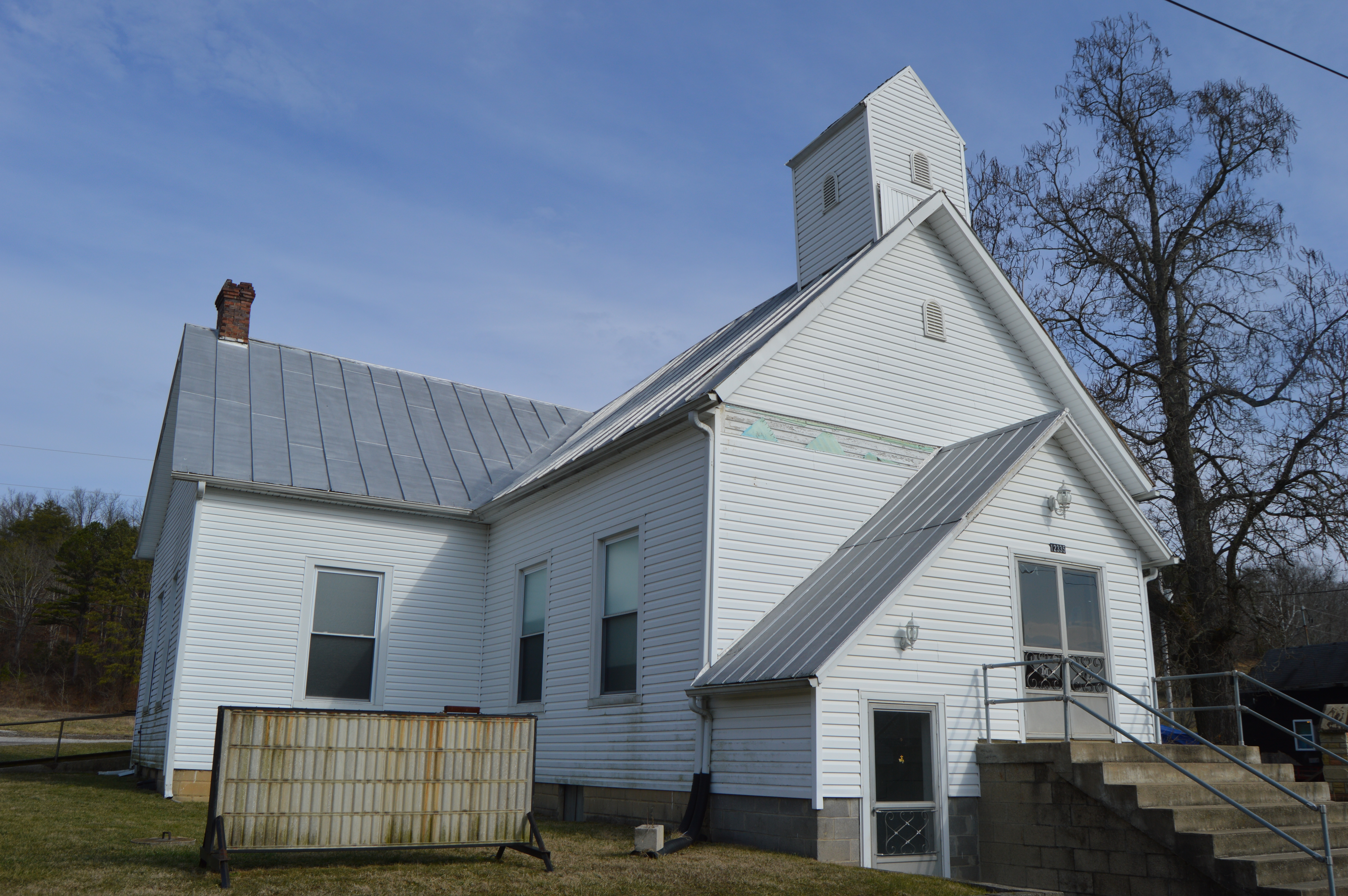 Front of the former Waterloo United Methodist Church (now empty and for sale), located on Waterloo-Mount Vernon Road in Waterloo, Ohio, United States.